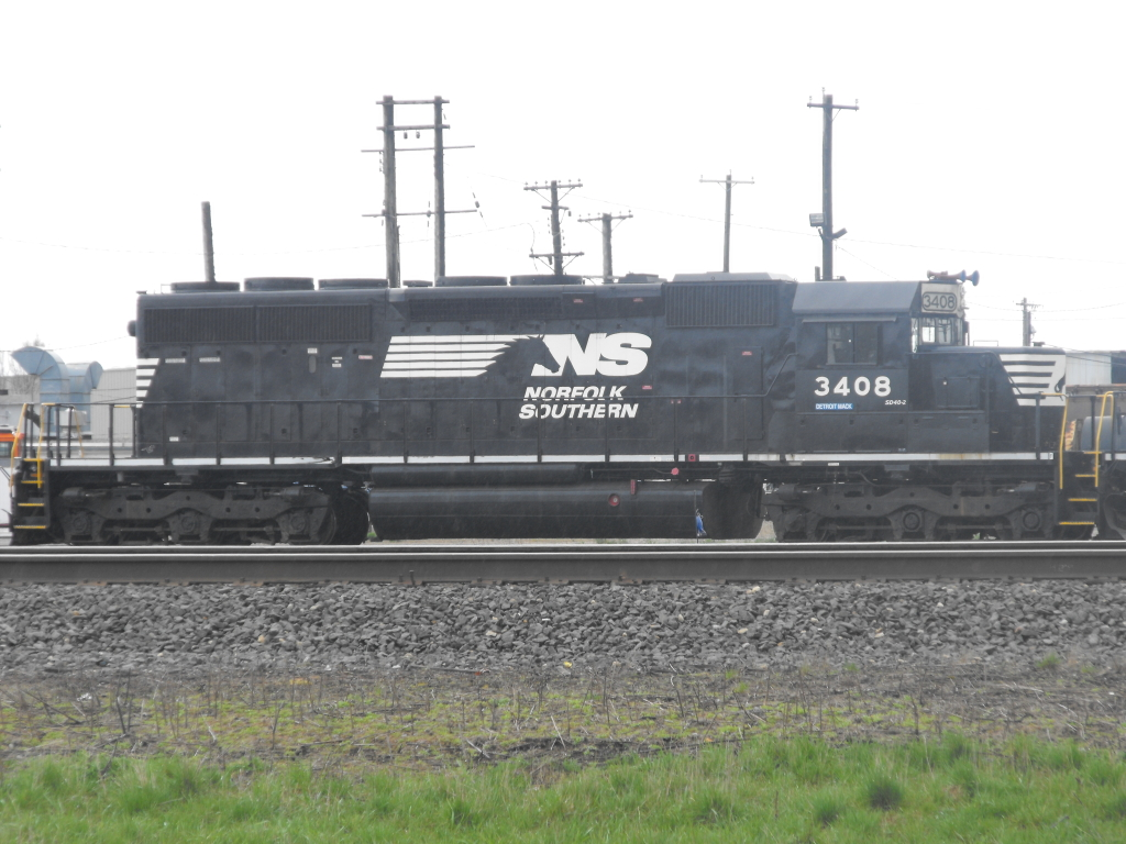 NS #3408 in Elkhart, Indiana.